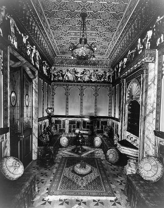 Turkish room (circa 1930), Marius Dufresne House (Château Dufresne), 4040 Sherbrooke Street East, Montreal, Quebec, Canada.